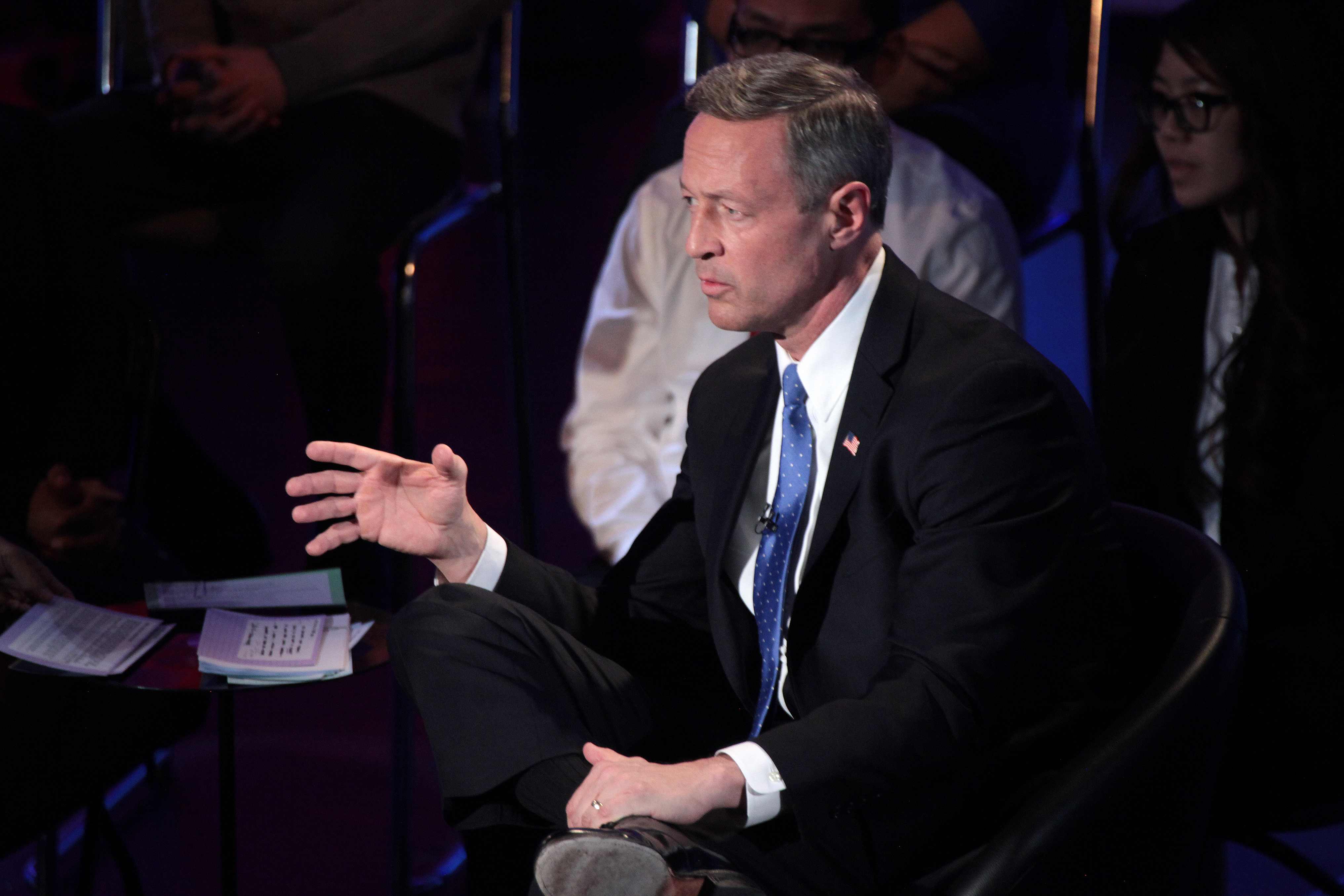 Former Governor Martin O'Malley speaking at the Brown & Black Presidential Forum at Sheslow Auditorium at Drake University in Des Moines, Iowa.